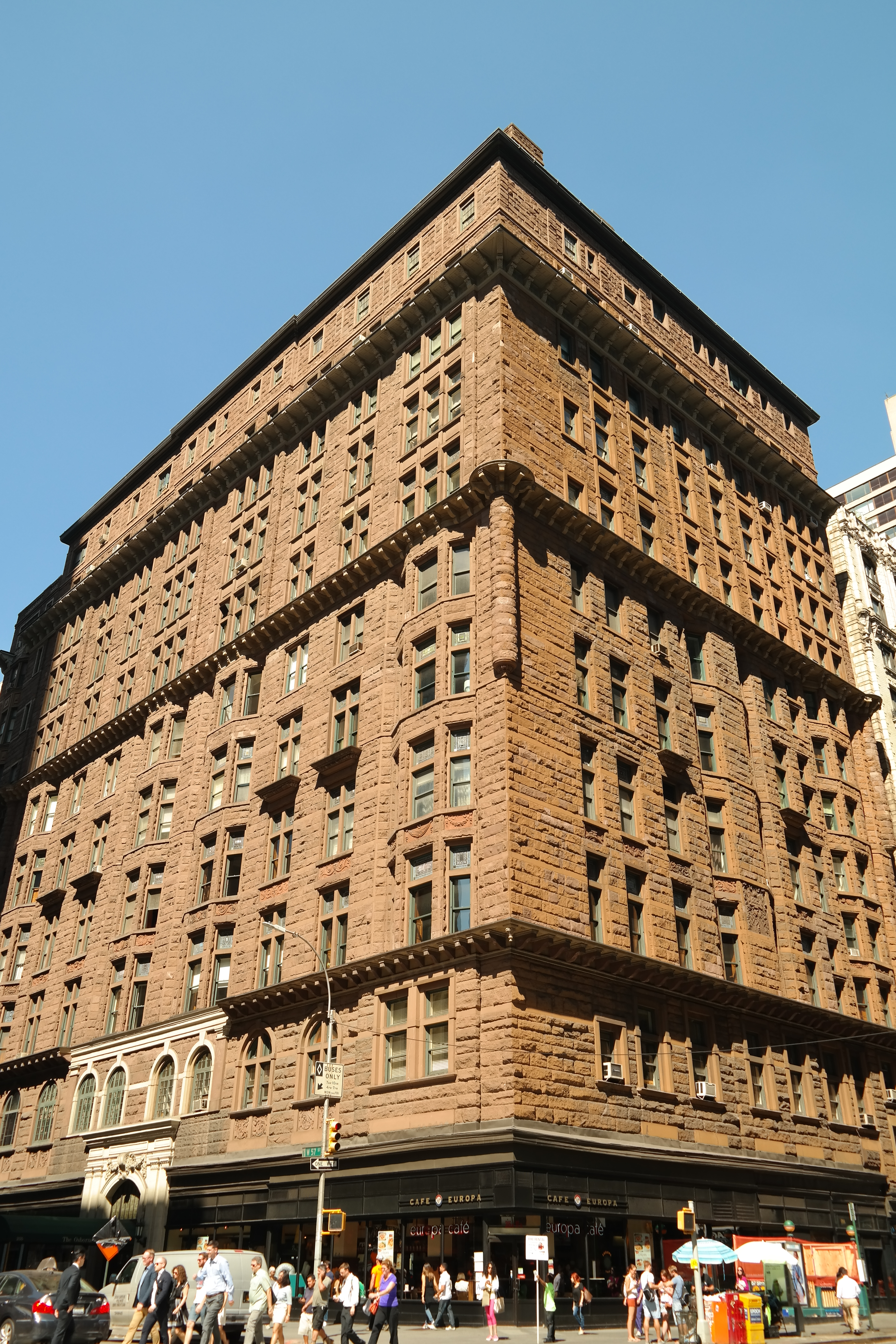 The Osborne Apartments located at the northwest corner of W. 57th Street and Seventh Avenue, in Midtown Manhattan, New York City (205 W. 57th Street). Completed in 1885 with the western annex added in 1906.